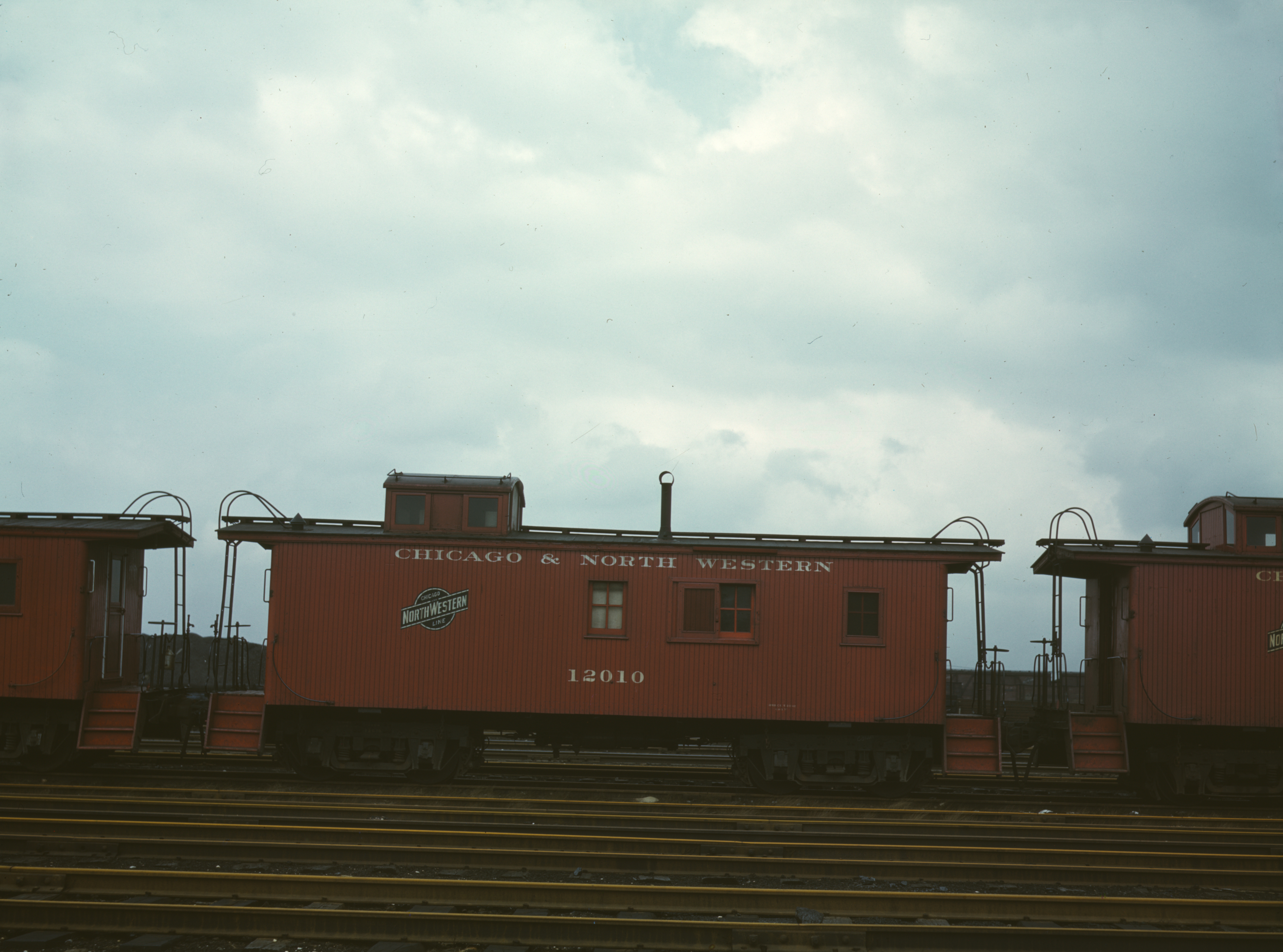 Caboose on the caboose track at C & NW RR's Proviso yard, Chicago, Ill.